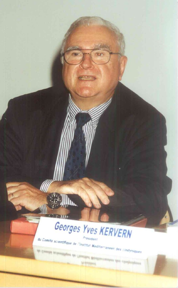 Georges-Yves Kervern